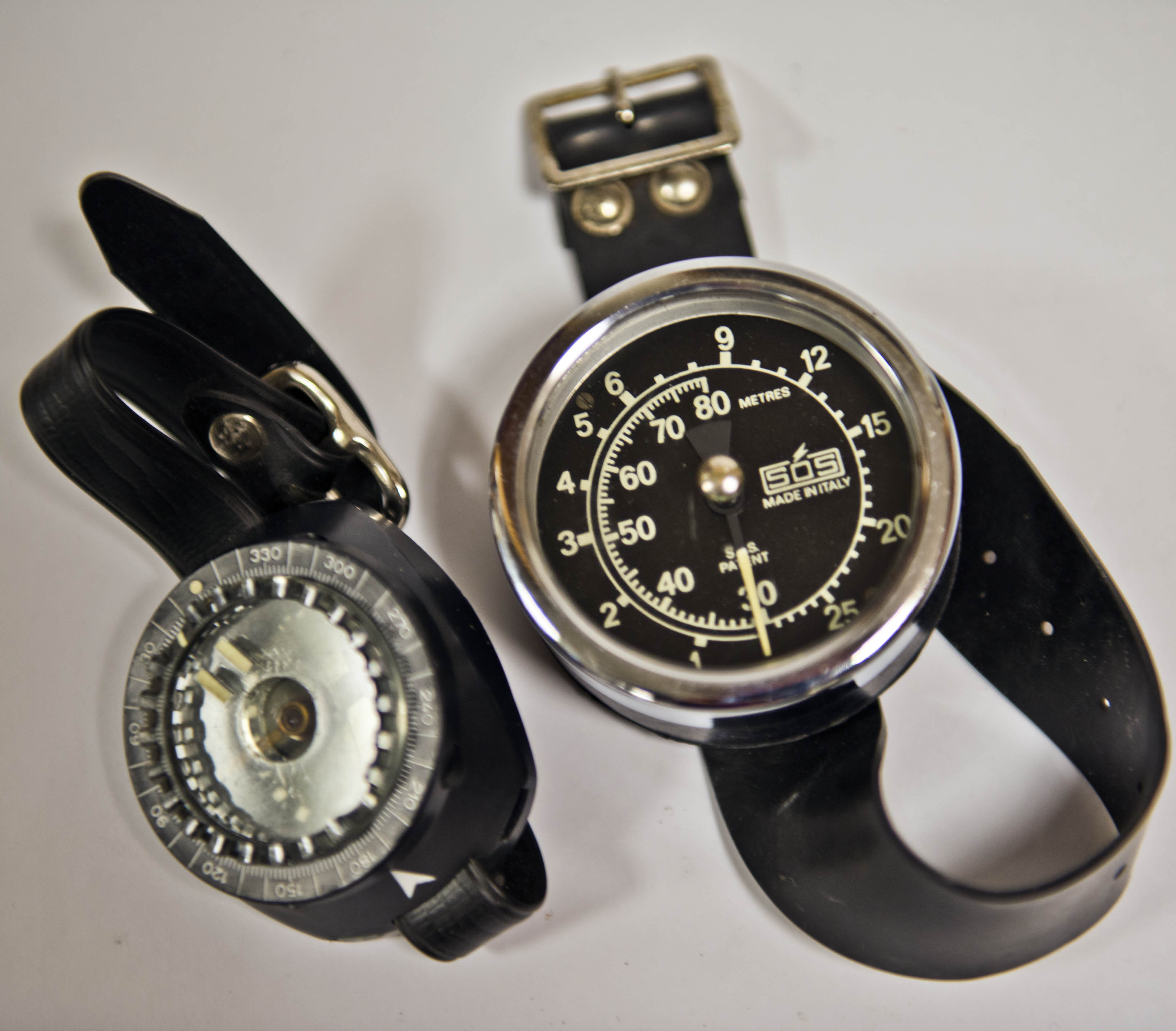 Bathometer and diver compass